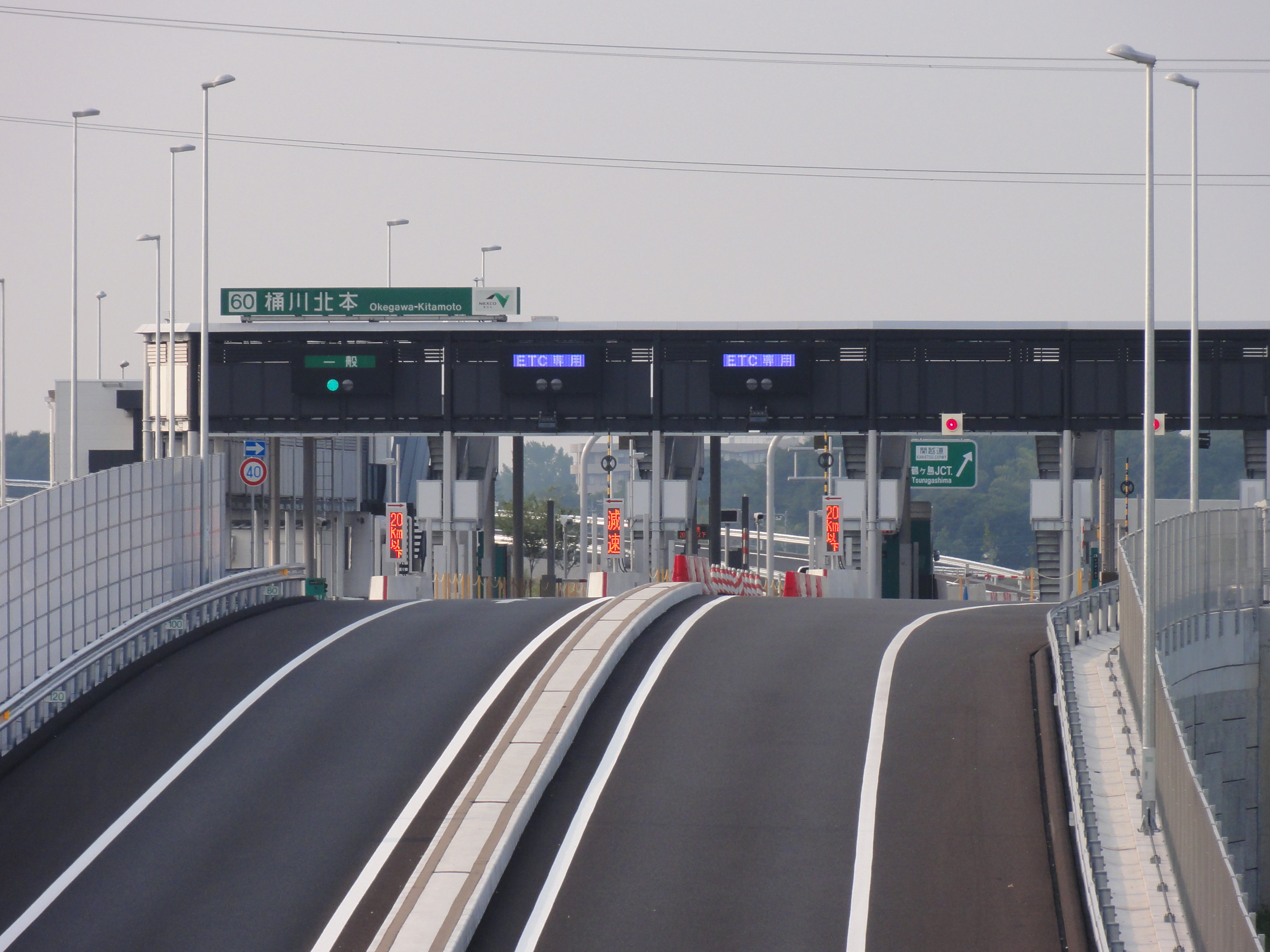 Okegawa-Kitamoto Inter Change,Saitama Prefecture, Japan